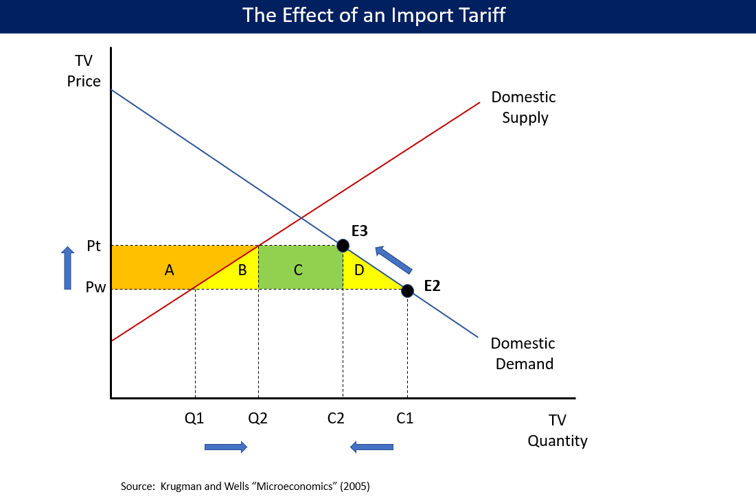 Diagram showing effects of import tariff, which hurts domestic consumers more than domestic producers are helped. Higher prices and lower quantities reduce consumer surplus by A+B+C+D, while expanding producer surplus by A and government revenue by C. Areas B and D are deadweight losses, surplus lost by consumers and overall.